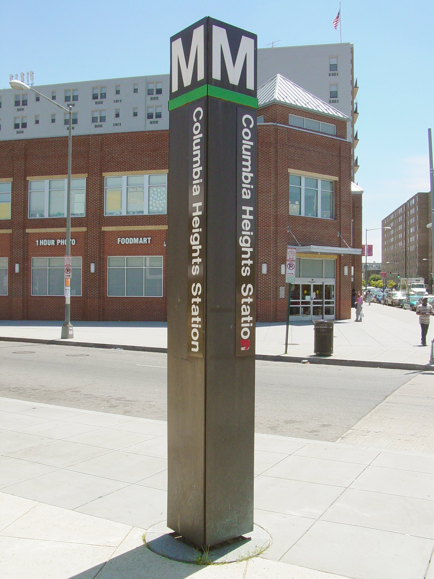 Station entrance pylon for Columbia Heights station, on the Green Line of the Washington Metro.